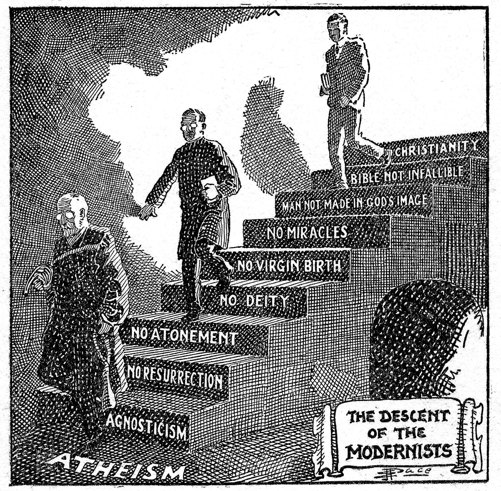 "The Descent of the Modernists", by E. J. Pace, first appearing in the book Seven Questions in Dispute by William Jennings Bryan, 1924, New York: Fleming H. Revell Company.